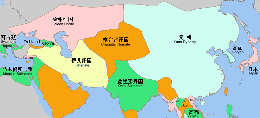 Aproximate outlines of nations in Asia in 1335, labeled in zh and en.